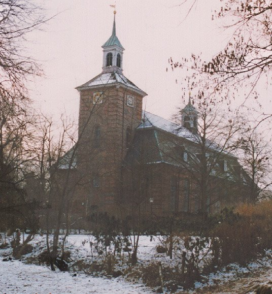 Klosterkirche, Uetersen (Germany), photo 1995